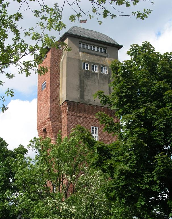 Malente, Germany: Watertower, photo 2003